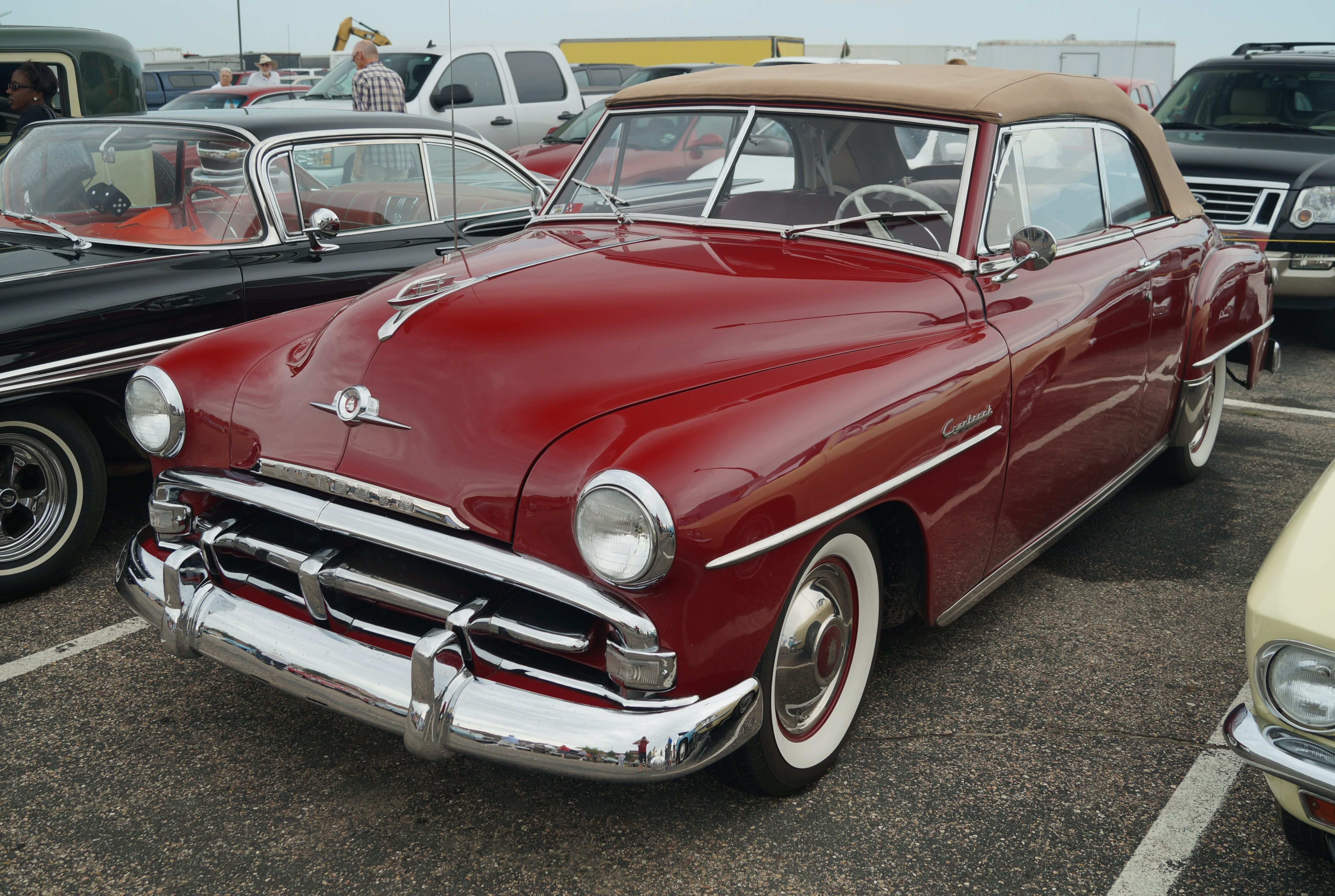 29th Annual New London to New Brighton Antique Car August 2015 Lunch Stop Buffalo High School Buffalo Minnesota Mile 78.8 Wright County Car Club Hosts a great lunch and display some very interesting cars that look quite modern compared to the cars driving in the run. Click here for more car pictures at my Flickr site.